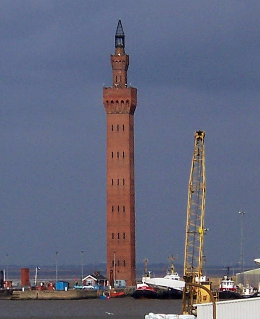 Grimsby Dock Tower Pevsner says "THE DOCK TOWER, 1851-2 by J.W.Wild, is the most memorable building in Grimsby, a beacon for many miles...inspired by Siena Town Hall, but the crowning minaret is oriental. It was built as part of the hydraulic system to open the lock gates and operate cranes, the first major dock to use hydraulic power for this purpose. Of red brick, 309ft tall, taller than Lincoln Cathedral, it rises in an unbroken line to the corbelled-out top, surmounted by a further section again with a corbelled-out top...". Note that the Grimsby tower isn't a hydraulic accumulator (it's in the category because it's an important part of their history). Towers such as Grimsby achieved high pressures simply by their height, expensive though these were to construct. It was soon realised that a pressurised cistern with a heavy iron or concrete weight on it gave the same results, at much less cost. Photo taken from the footbridge on the A180 flyover. For more information on the tower see Link